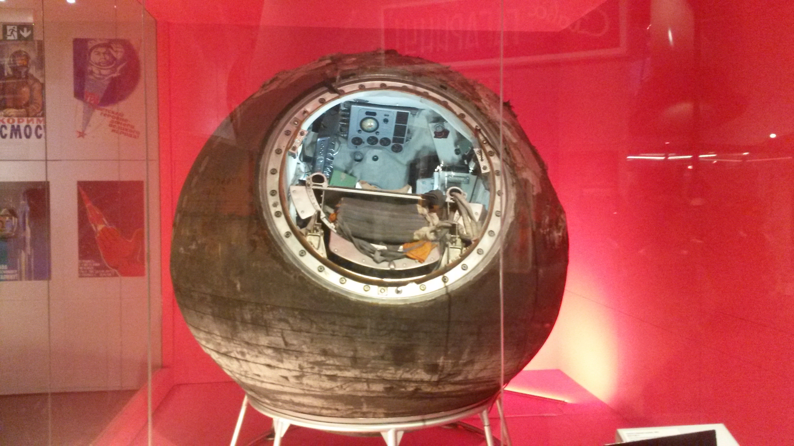 Vostok 6 capsule (flown 1964). Photographed at the Science Museum, London, March 2016.